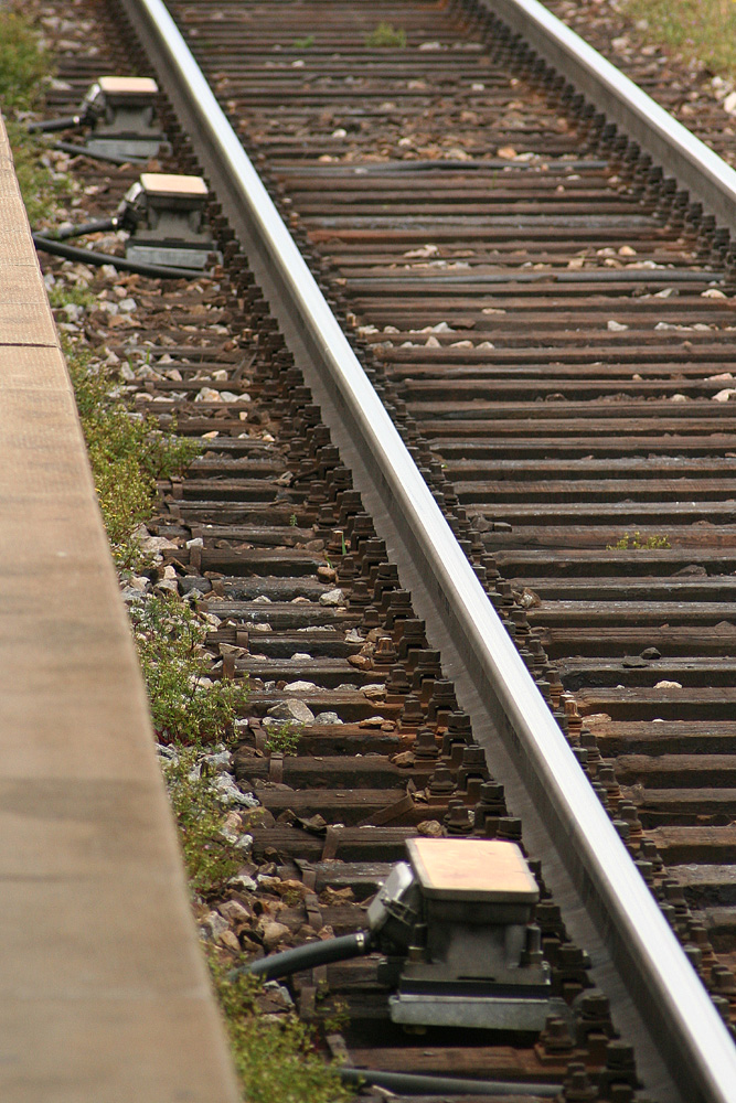 Three magnets that make up a system that automatically stops trains that are going too fast.